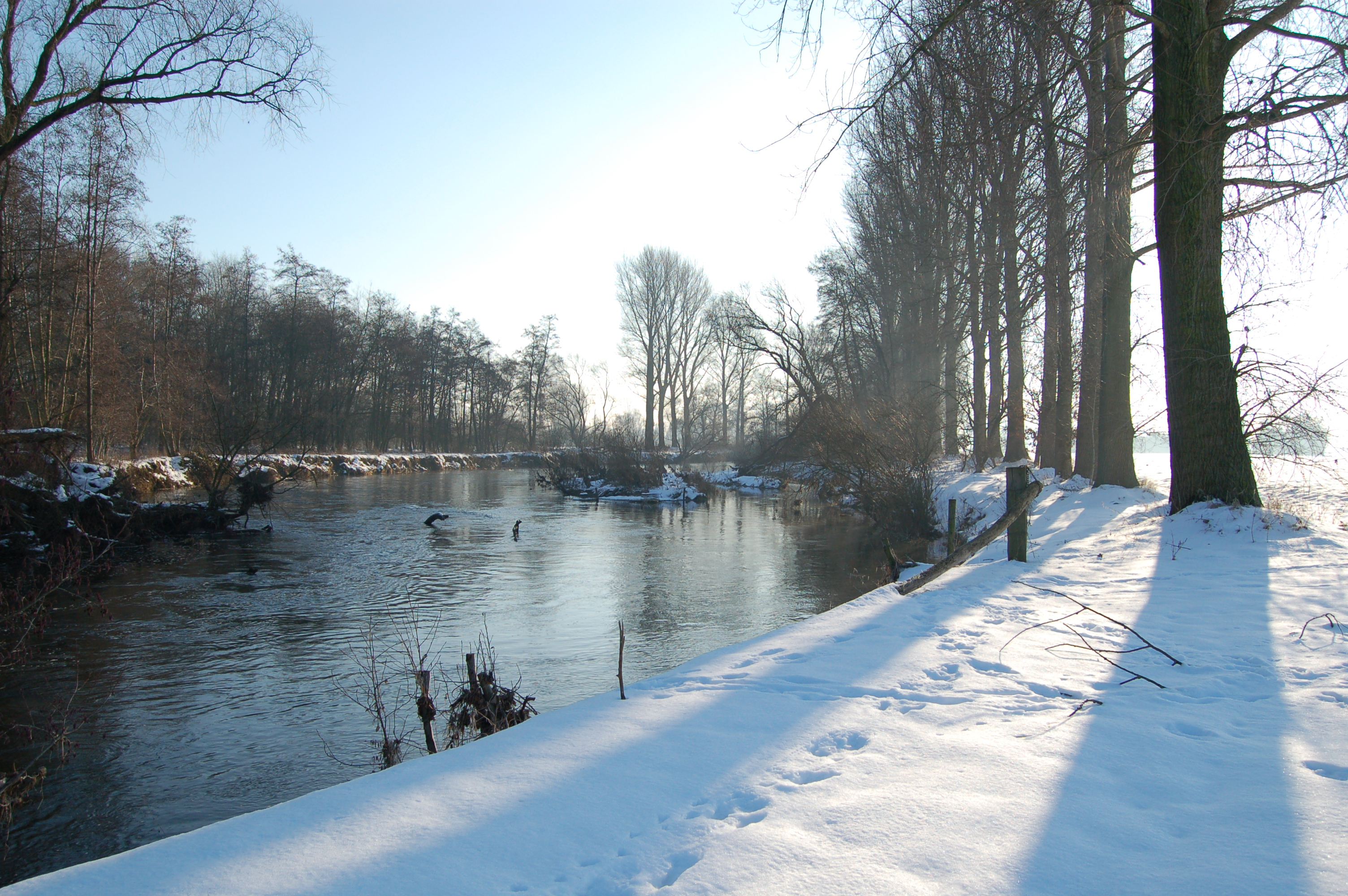 The river Rur at the frontier between Germany and the Nederlands near Vlodrop.